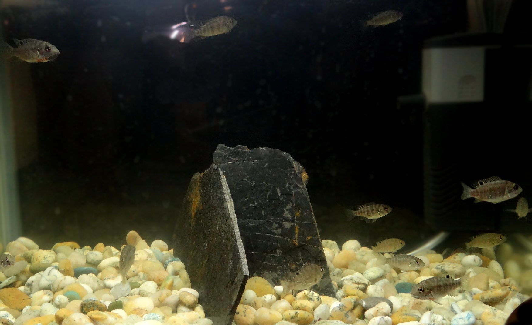 The redbelly tilapia : Coptodon zillii or Tilapia zillii